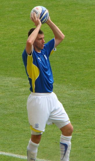 Photo of footballer Paul Quinn